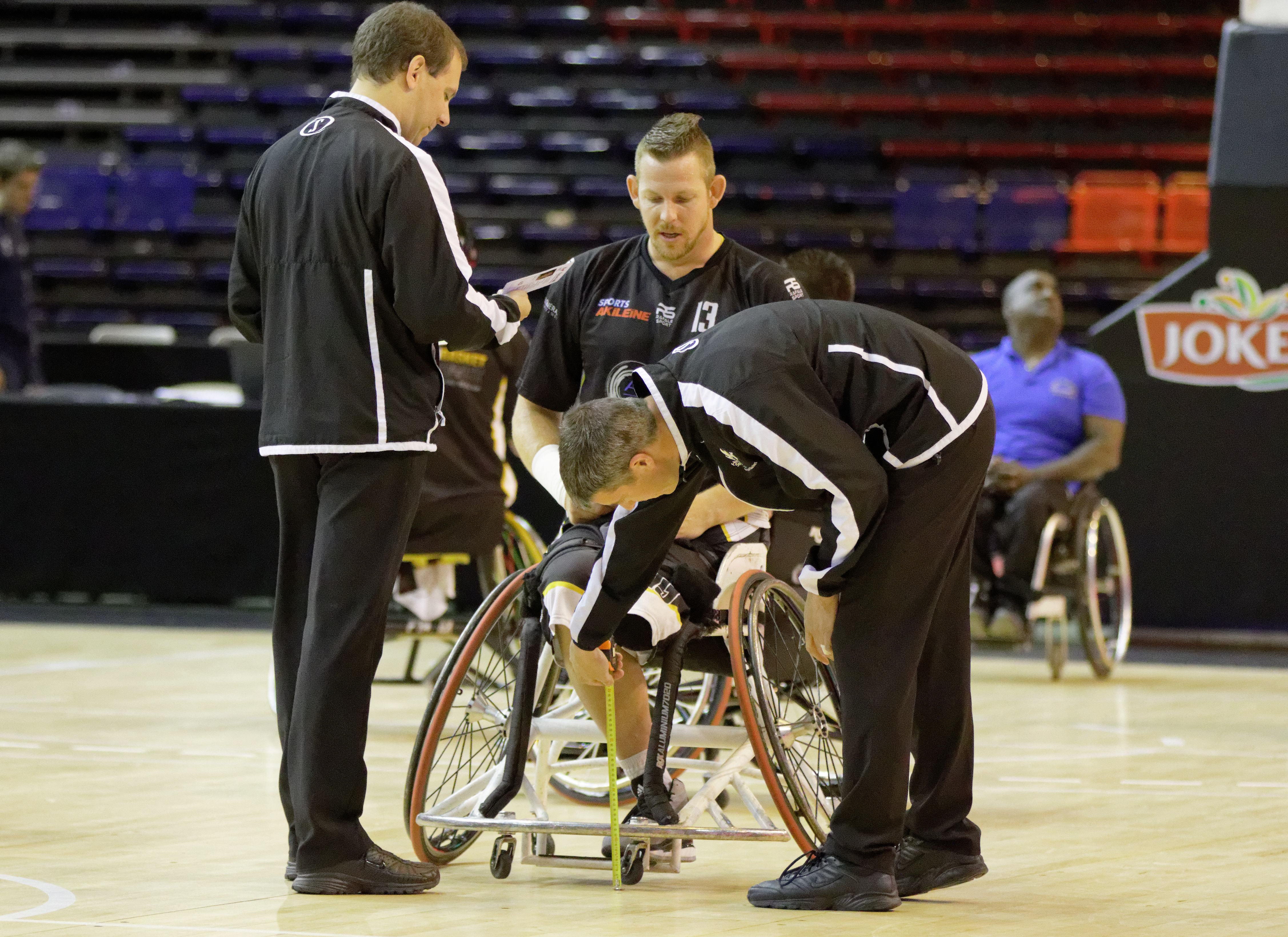 Final of the French Wheelchair Basketball Cup, CS Meaux vs Le Cannet, 1st May 2015.